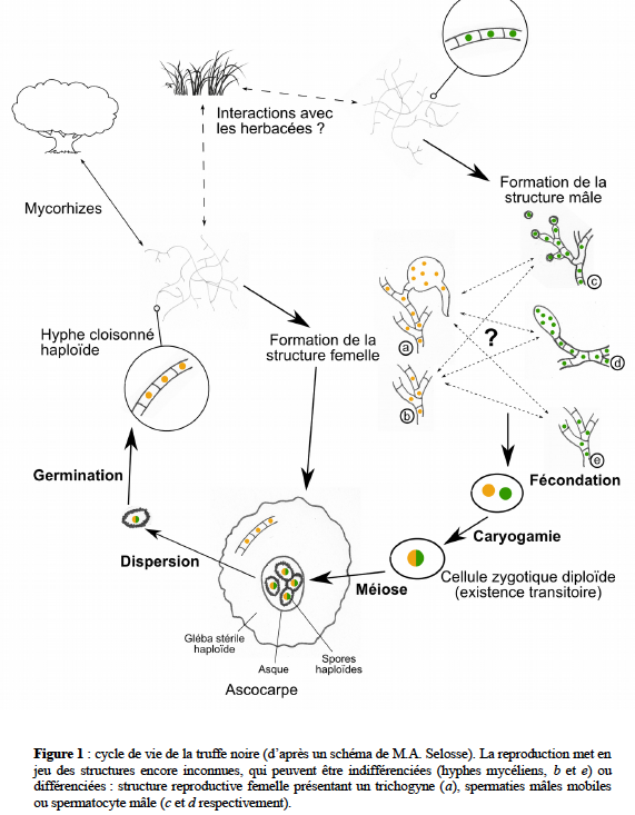 life cycle of true truffles